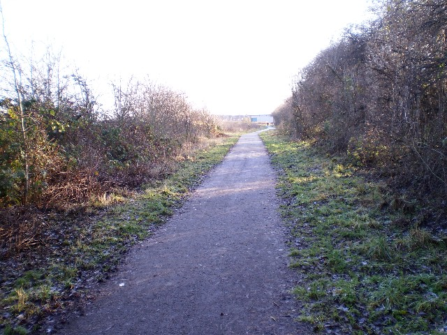 York Road Branch Line Path along former railway branch to Doncaster York Road